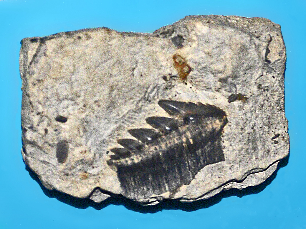 Teeth of Hexanchus andersoni from Jurassic,on display at the Museo Civico di Storia Naturale di Milano